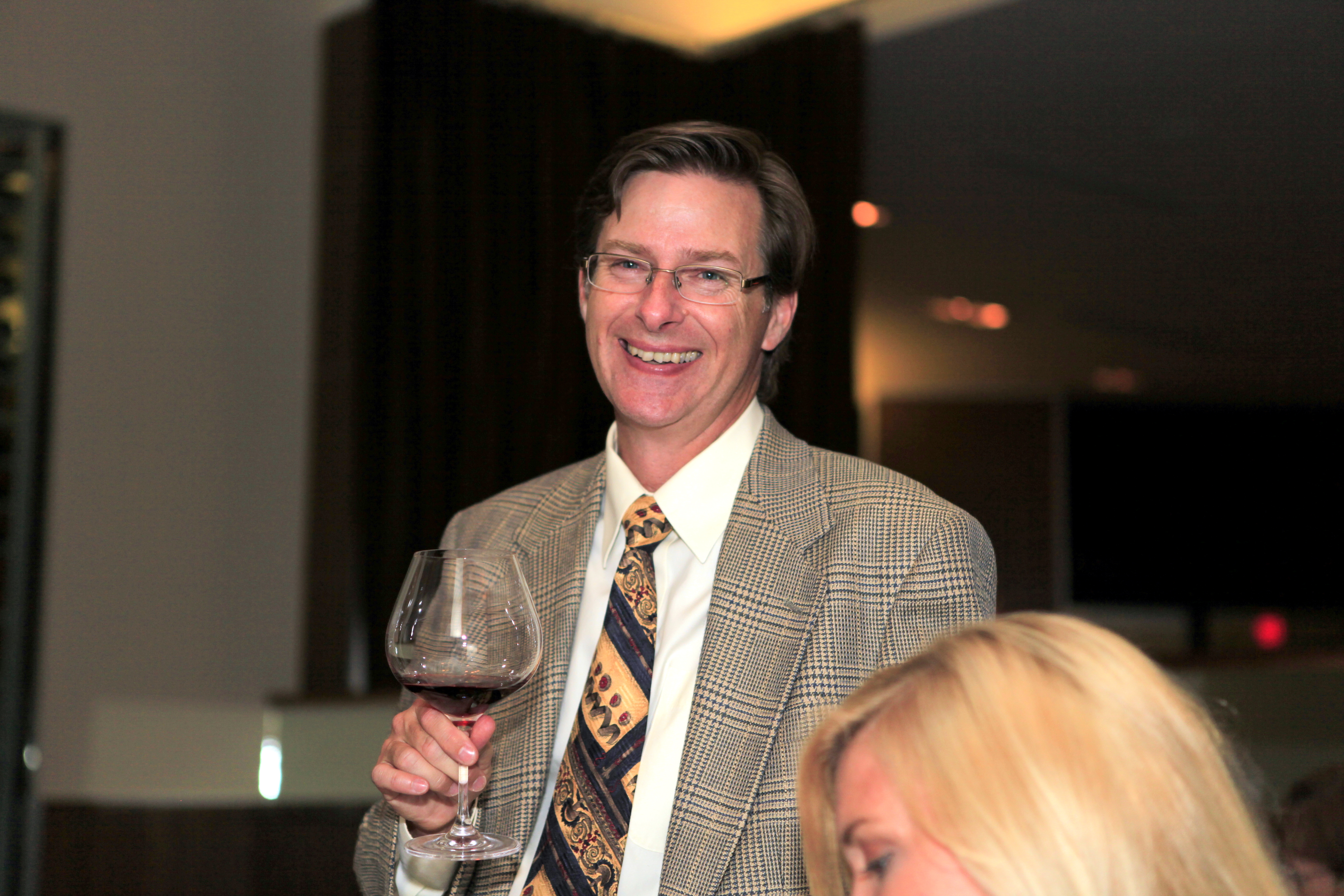 California winemaker Michael McNeill from the Sonoma winery Hanzell